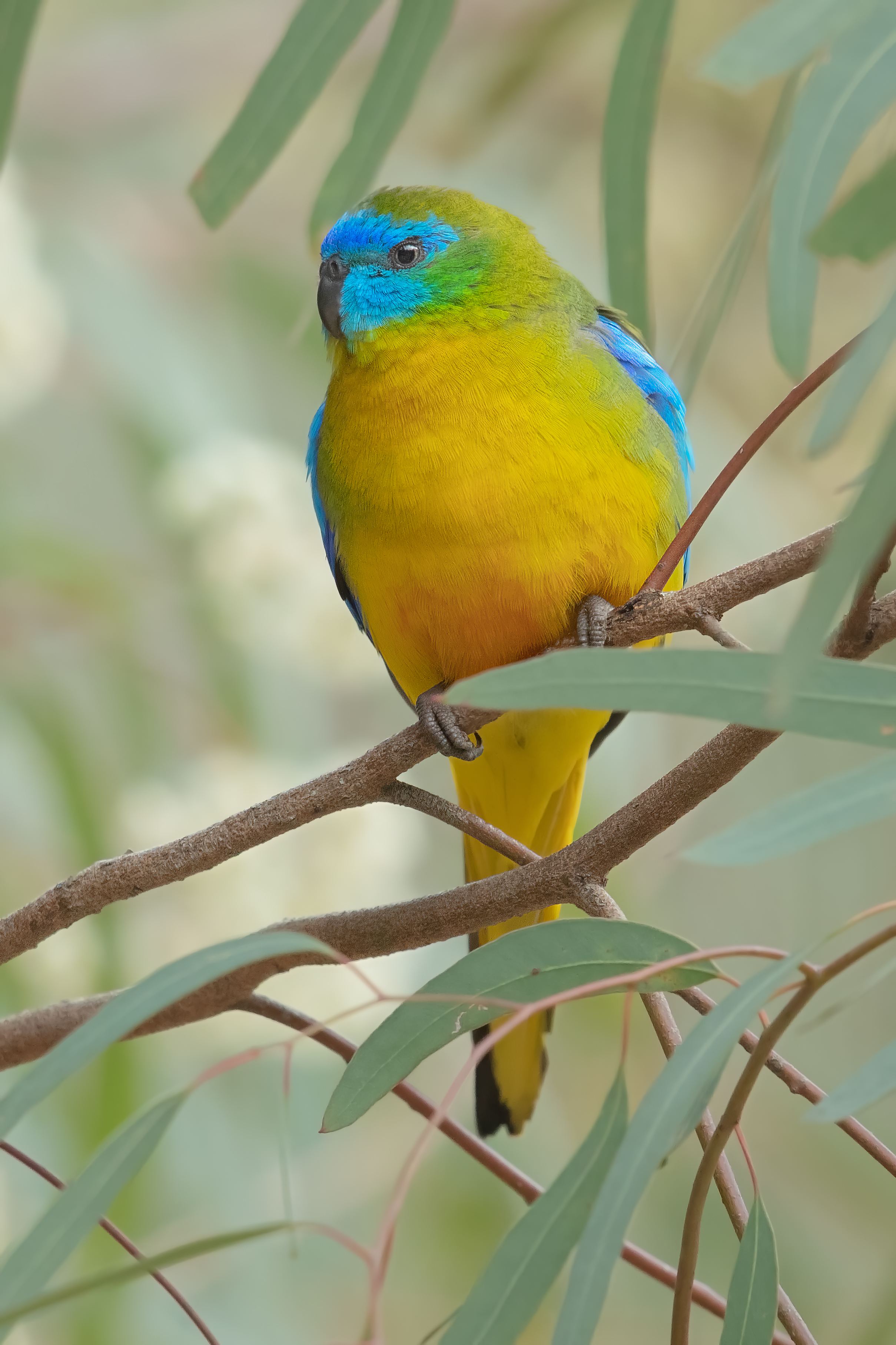 Turquoise Parrot, Neophema pulchella, male, Glen Davis, Lithgow, New South Wales, Australia